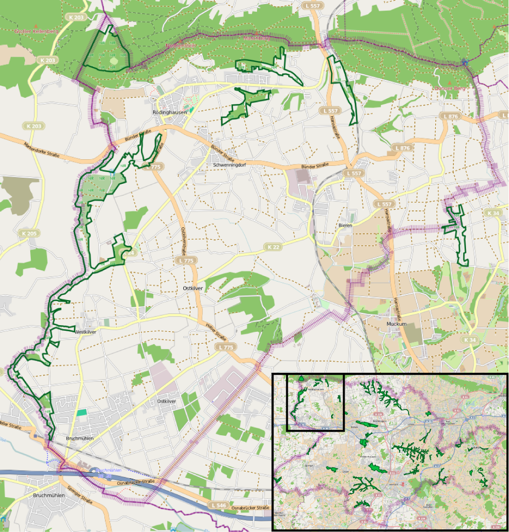 Nature reserves in Rödinghausen - overview map Number and borders of nature reserves are subject to frequent change. In order to facilitate reproduction of this map from openstreetmap, the following data is stored here: export boundaries: north: 52.27; west: 8.44; east: 8.565; south: 52.19; mapnik svg, scale 1:50.000 nature reserve boundary stroke weight 3.5; nature reserve stroke color: R 5, G 102, B 36; district border stroke weight: 20